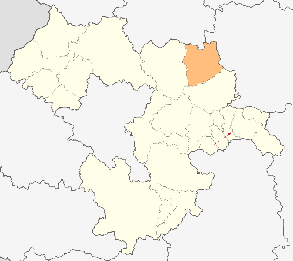 Map of Pravetz municipality, Sofia Province.